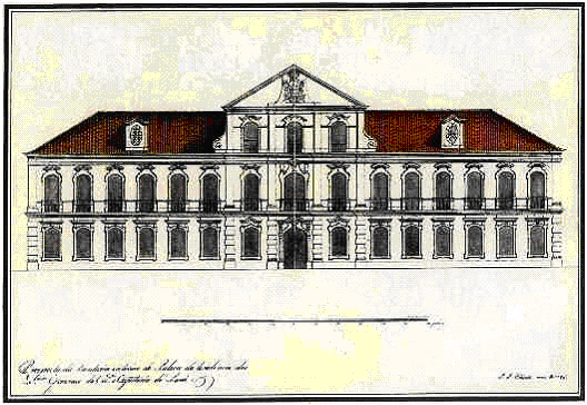 View in 1784 of the Palace of the Governors of Grão-Pará in the city of Belém, in colonial Brazil.